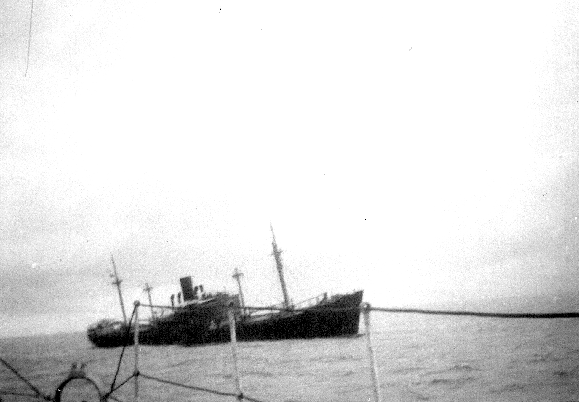 SS Hannover as seen from HMCS ASSINIBOINE - 6 March 1940